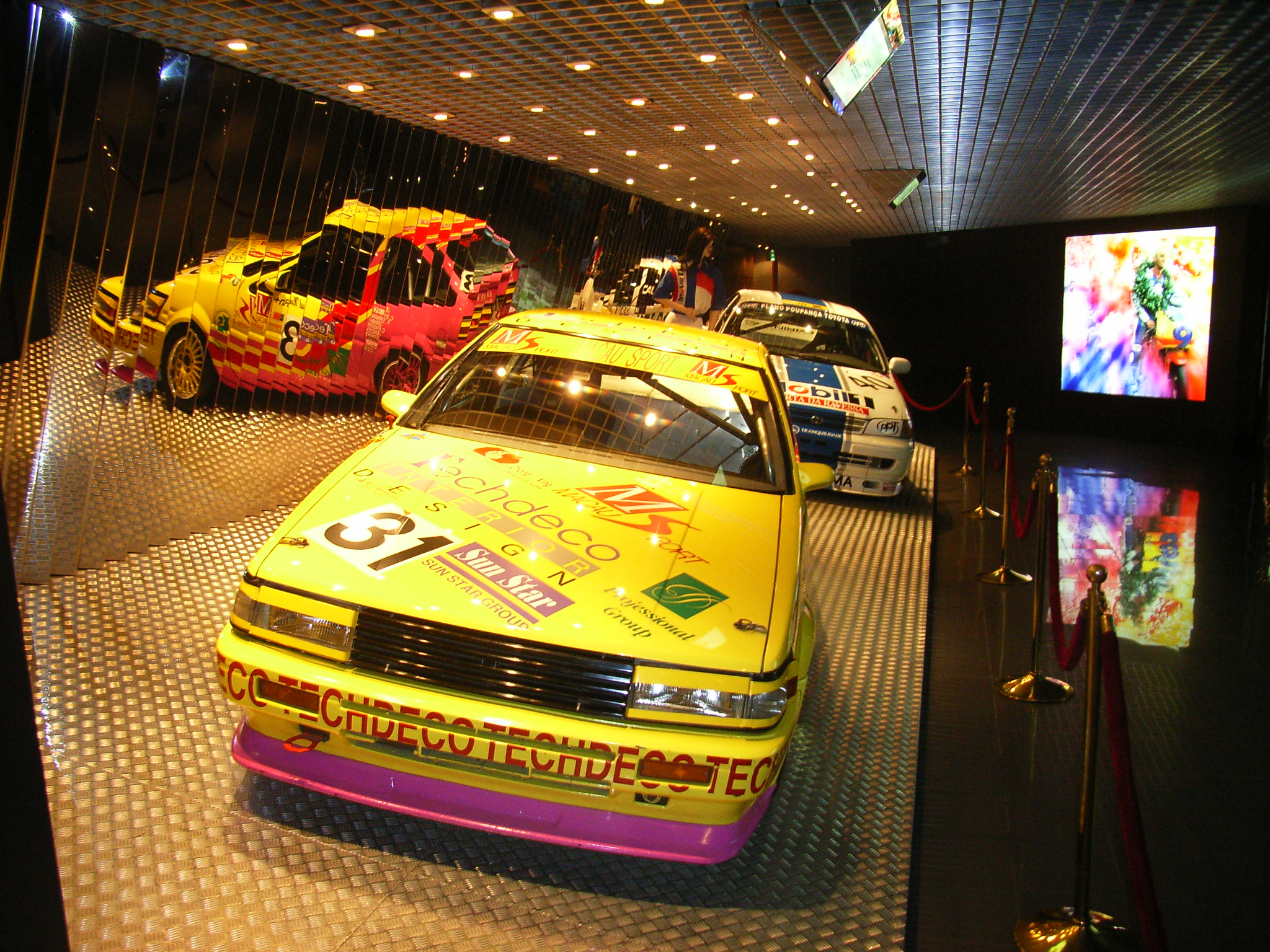 The Grad Prix Museum in Macau 澳門大賽車博物館 在 新口岸區 高美士街